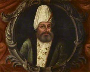 Portrait of 'the Grand Vizier' (1702).